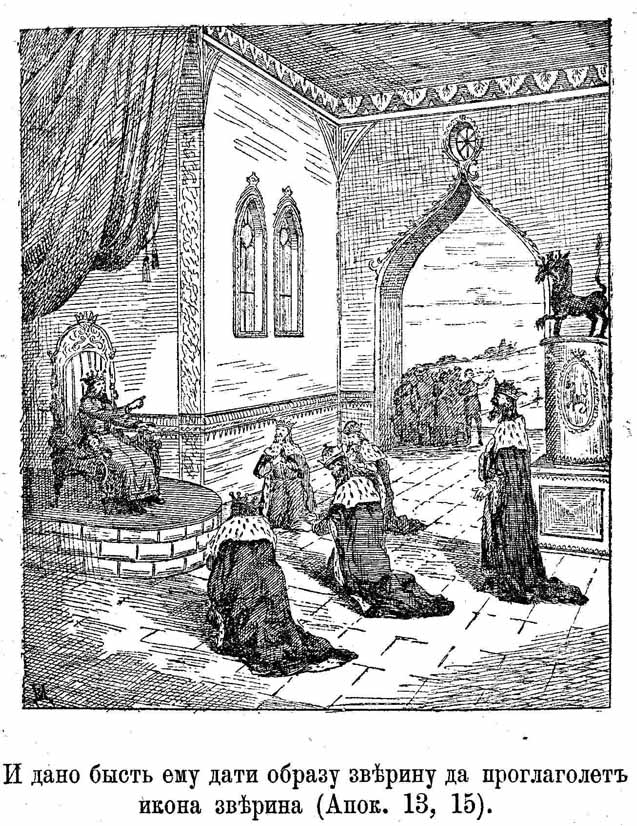 Illustration to Book of Revelation